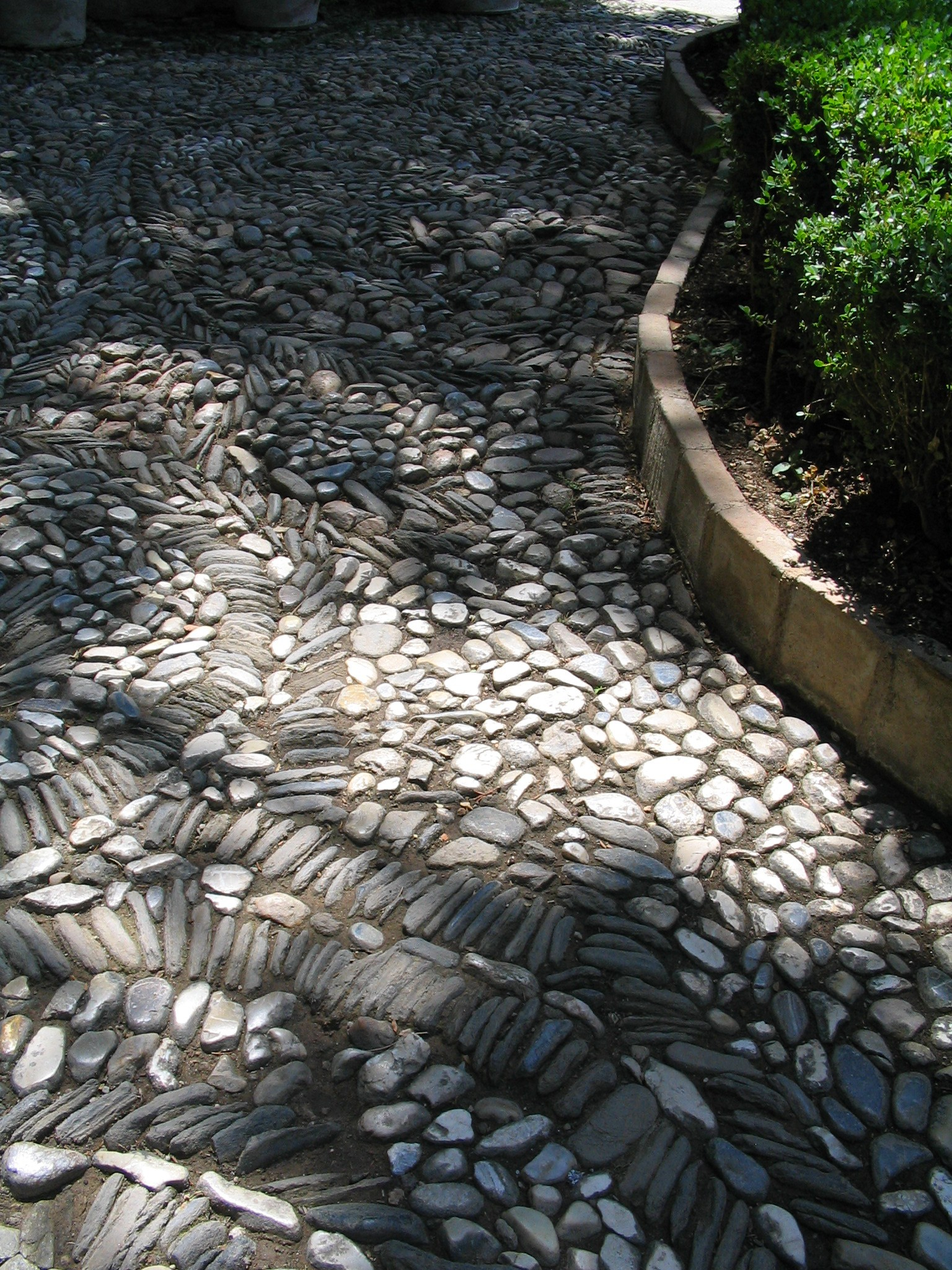 Pebble mosaic path at the Generalife gardens - Spain.